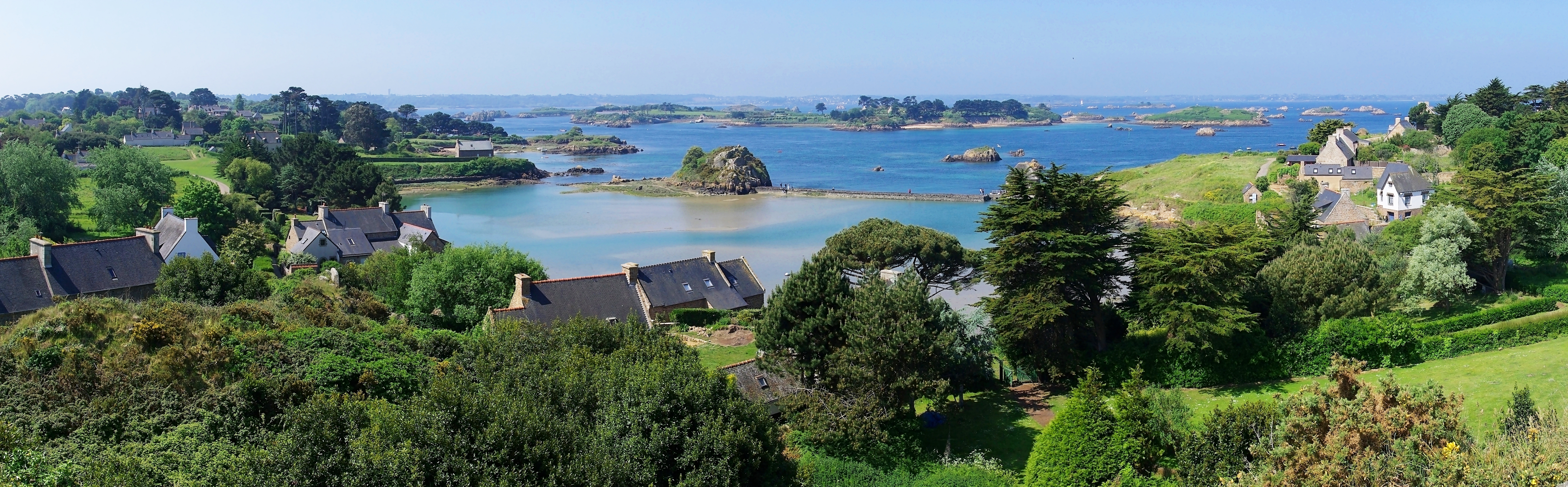 View from the Saint-Michel chapel, towards West and the Birlot tide mill. Île de Bréhat, Côtes-d'Armor,France.